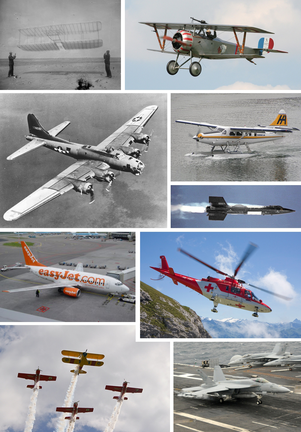 This is a mural formed by several files. For more information see each file